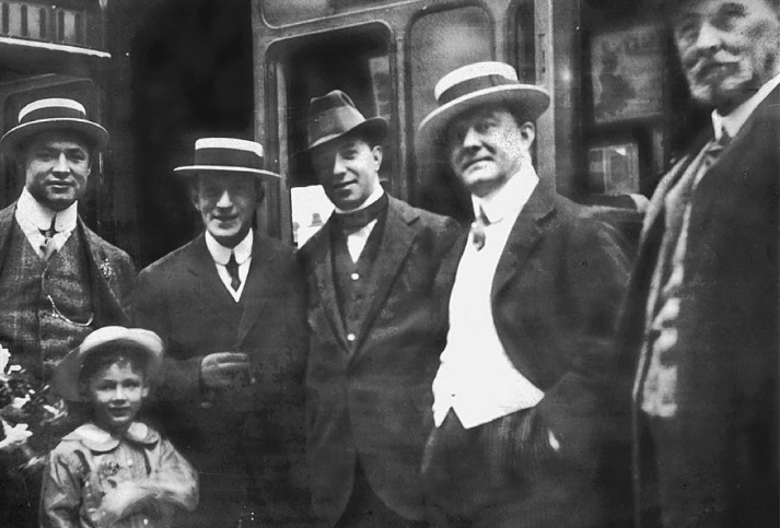 From left to right: American magician Theodore Hardeen, his son, Joe Hyman, Harry Day, Lord Northcliffe and Charles Dundas Slater.